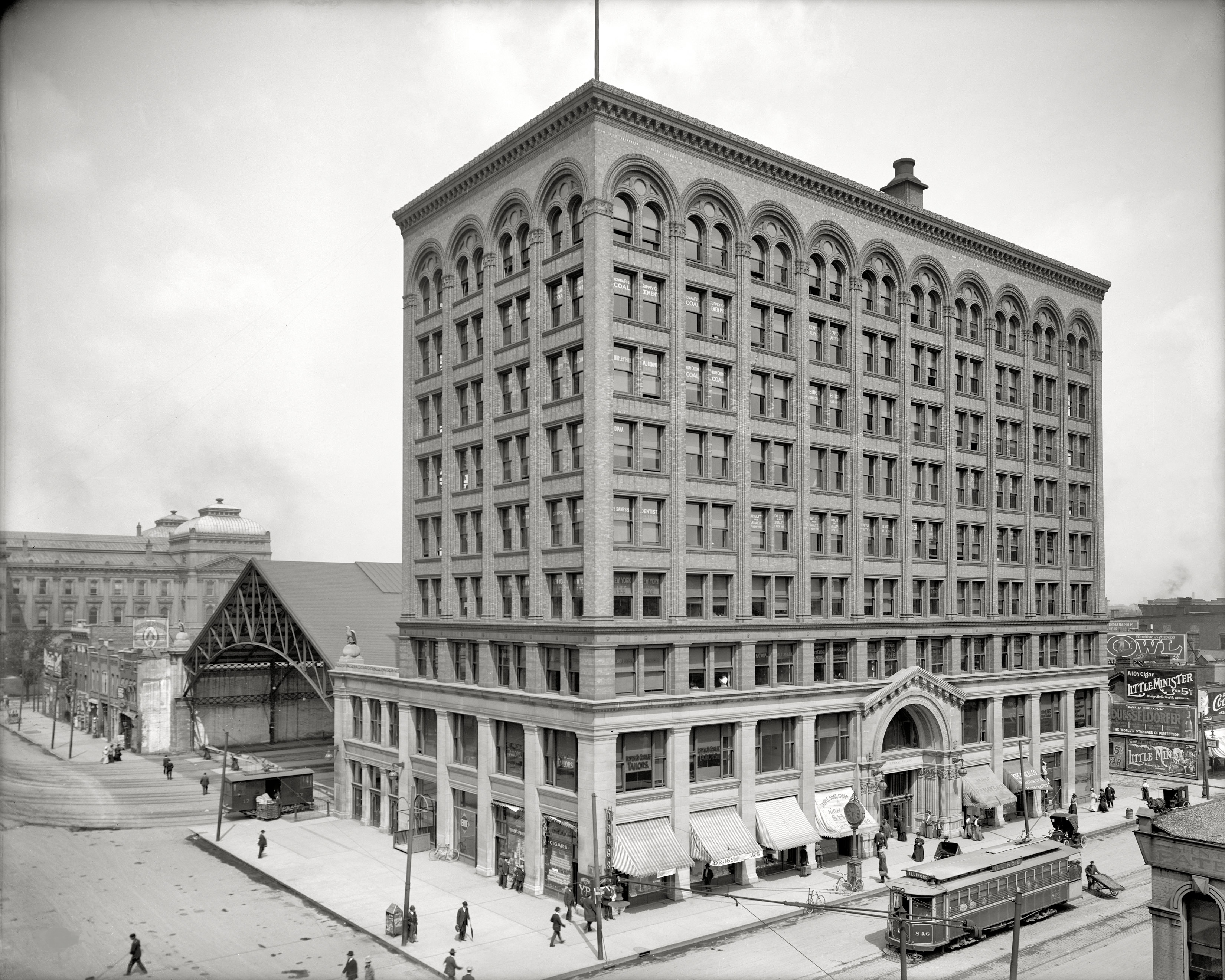 The Indianapolis Traction and Terminal Company headquarters and terminal building, Indianapolis, Indiana in 1907. The terminal served has the central interurban hub for the state of Indiana's light rail system.